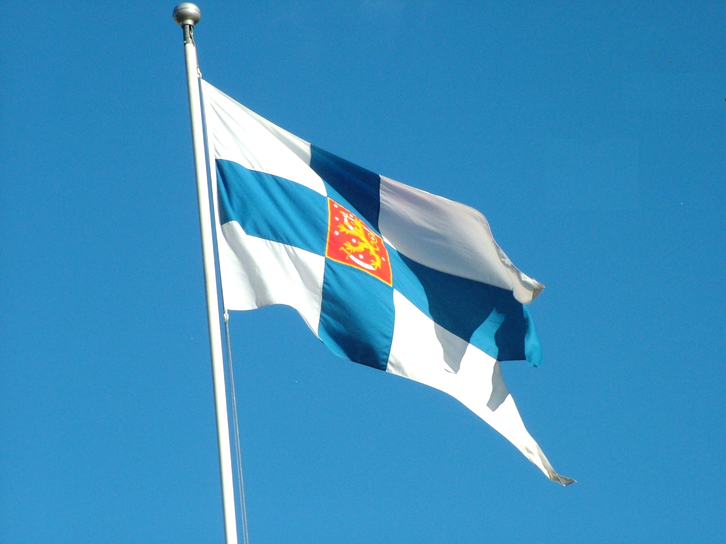 Flag of Finland, in Helsinki